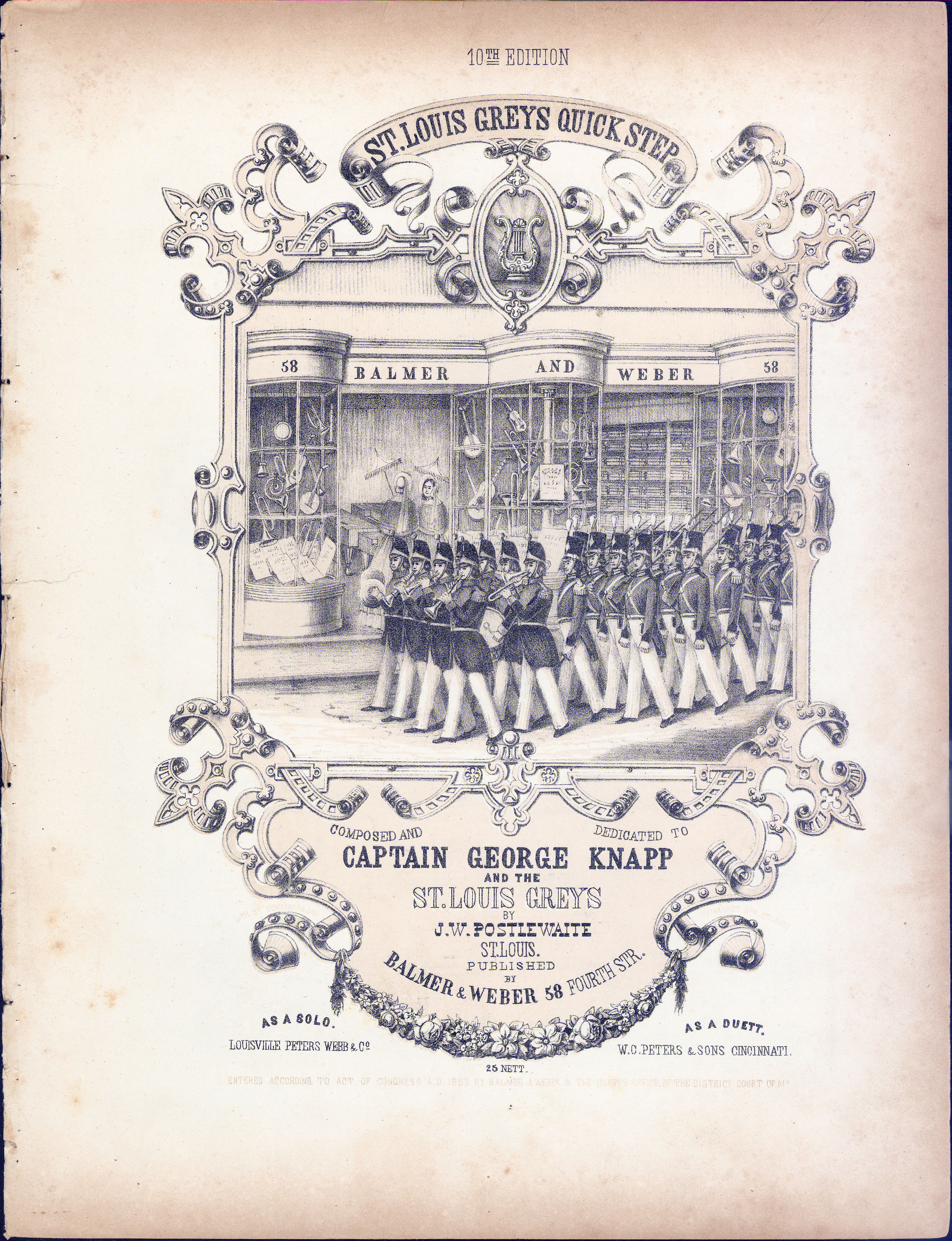 For piano. "10th edition". At end of music: Wm. B. Crombie, Pr. T.p. ill.: Uniformed band and soldiers, presumably the St. Louis Greys, marching in front of Balmer & Weber's storefront, in which may be seen instruments hanging in the windows, and ladies in the store; the ill. and title contained in an elaborate cartouche. Keck